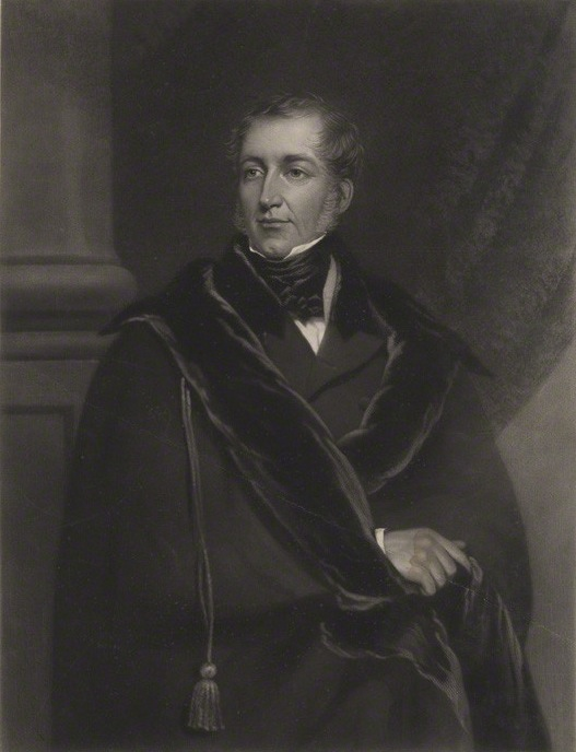 Sir Benjamin Hall, Bt, statesman